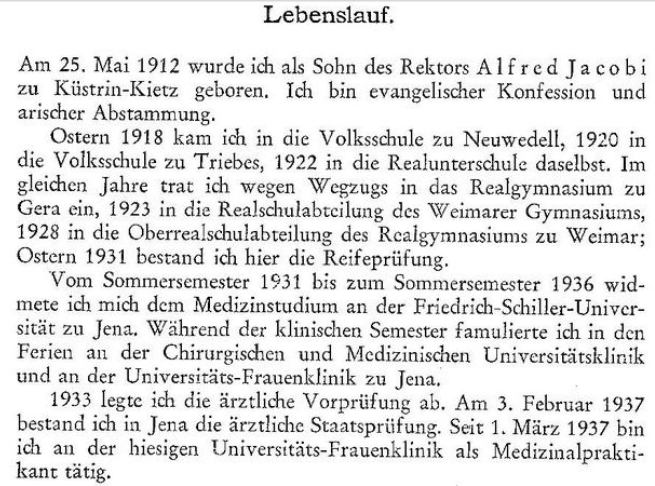 Curriculum vitae of a medical doctoral dissertation, Jena, Germany 1937